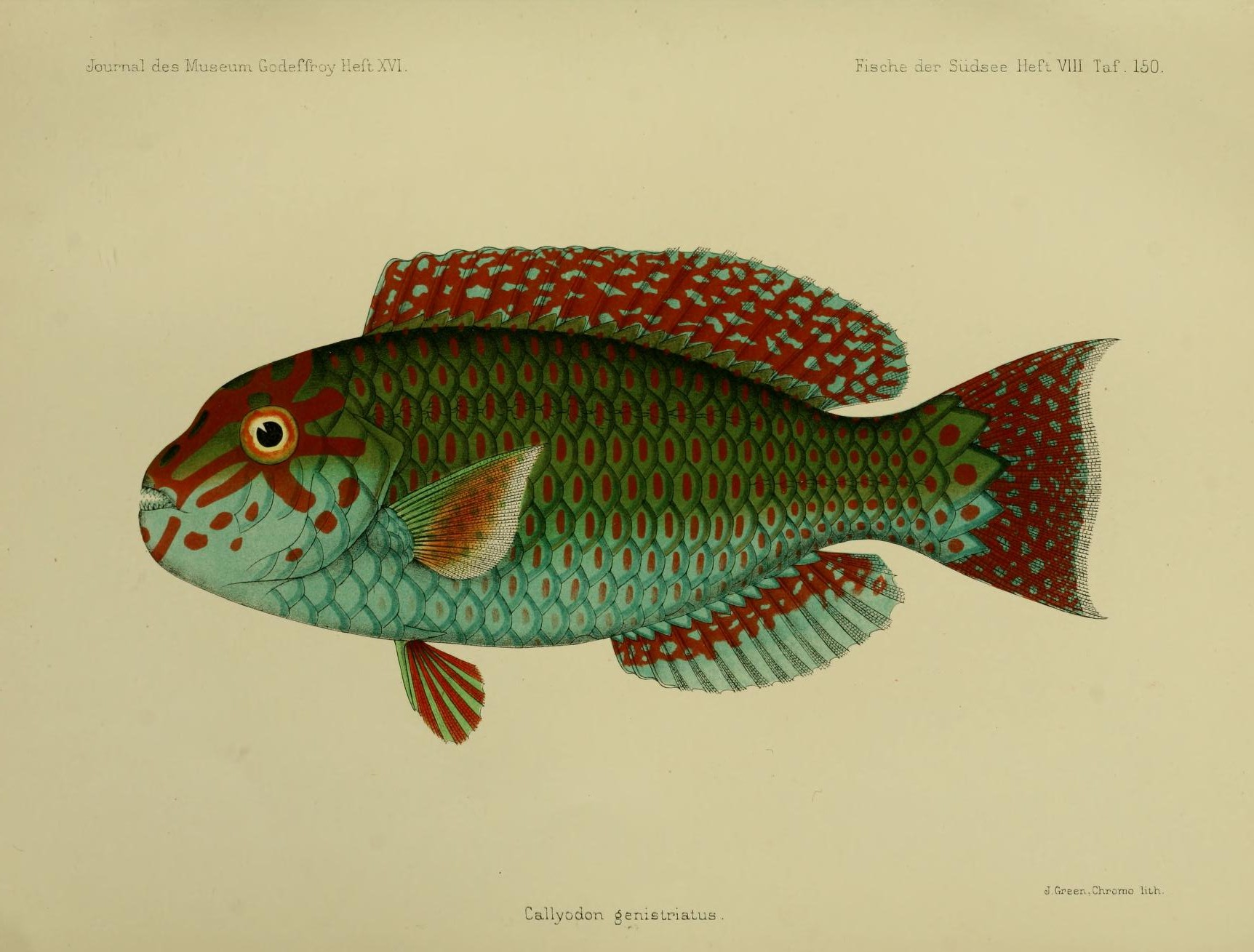 Calotomus carolinus syn. Callyodon genistriatus